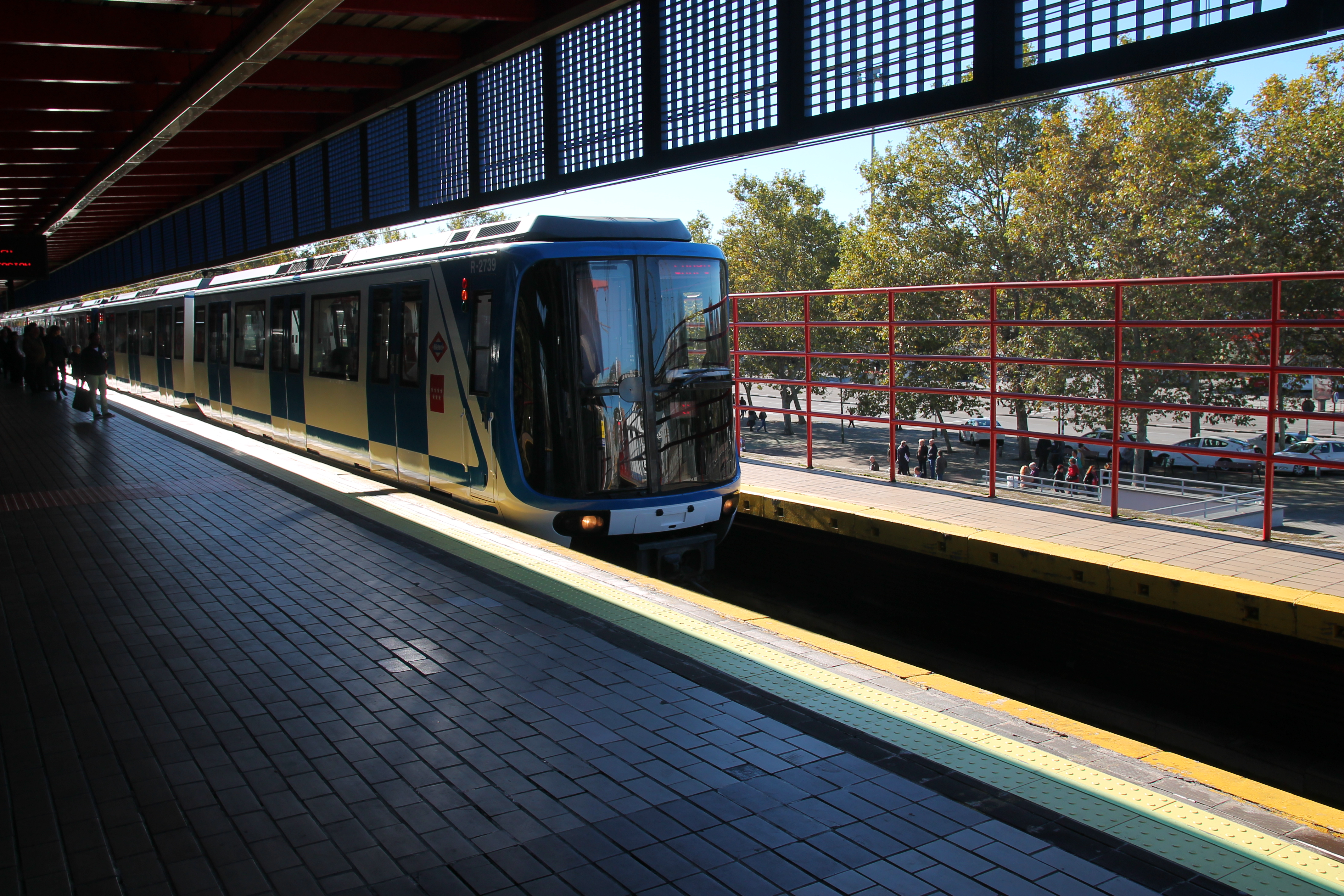 Estación de Aluche